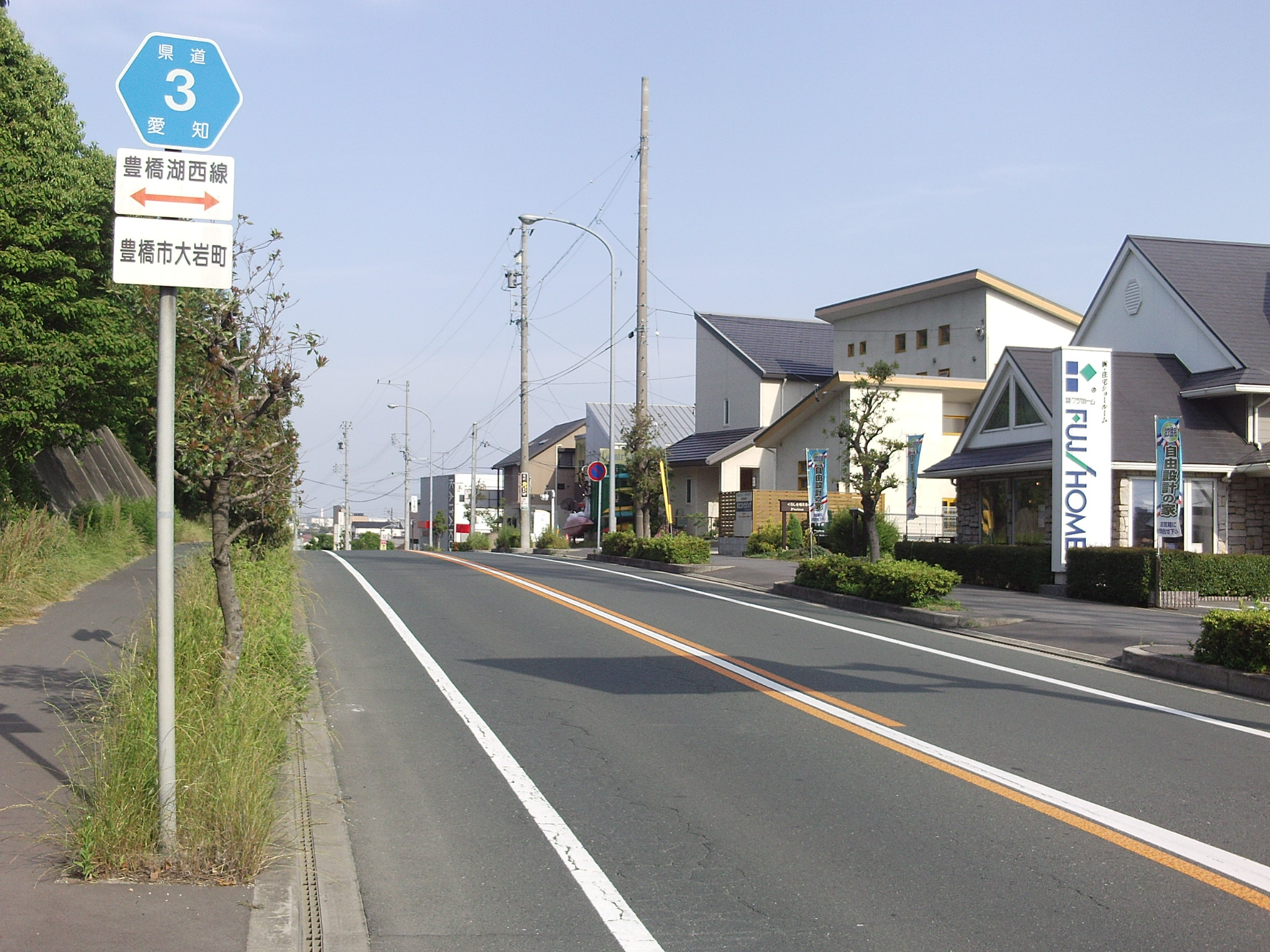 The Aichi Prefectural Road Route 3 in Oiwacho, Toyohashi City